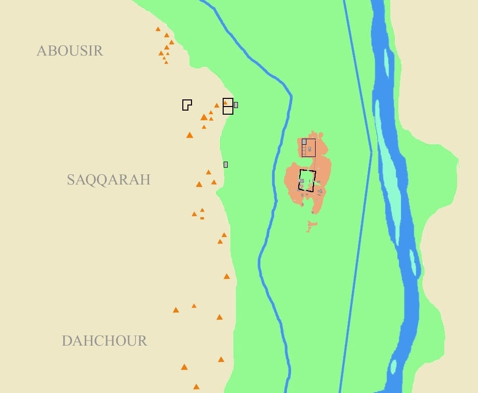 Map of Memphis and its necropolis